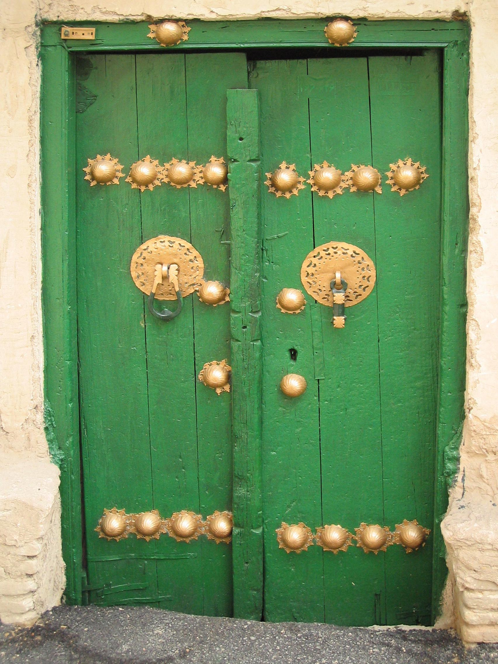 The old door of a house in Esfahan.Note the different "buttons" for men and women, they don't sound the same so people knew who (man or woman) was knocking at the door.